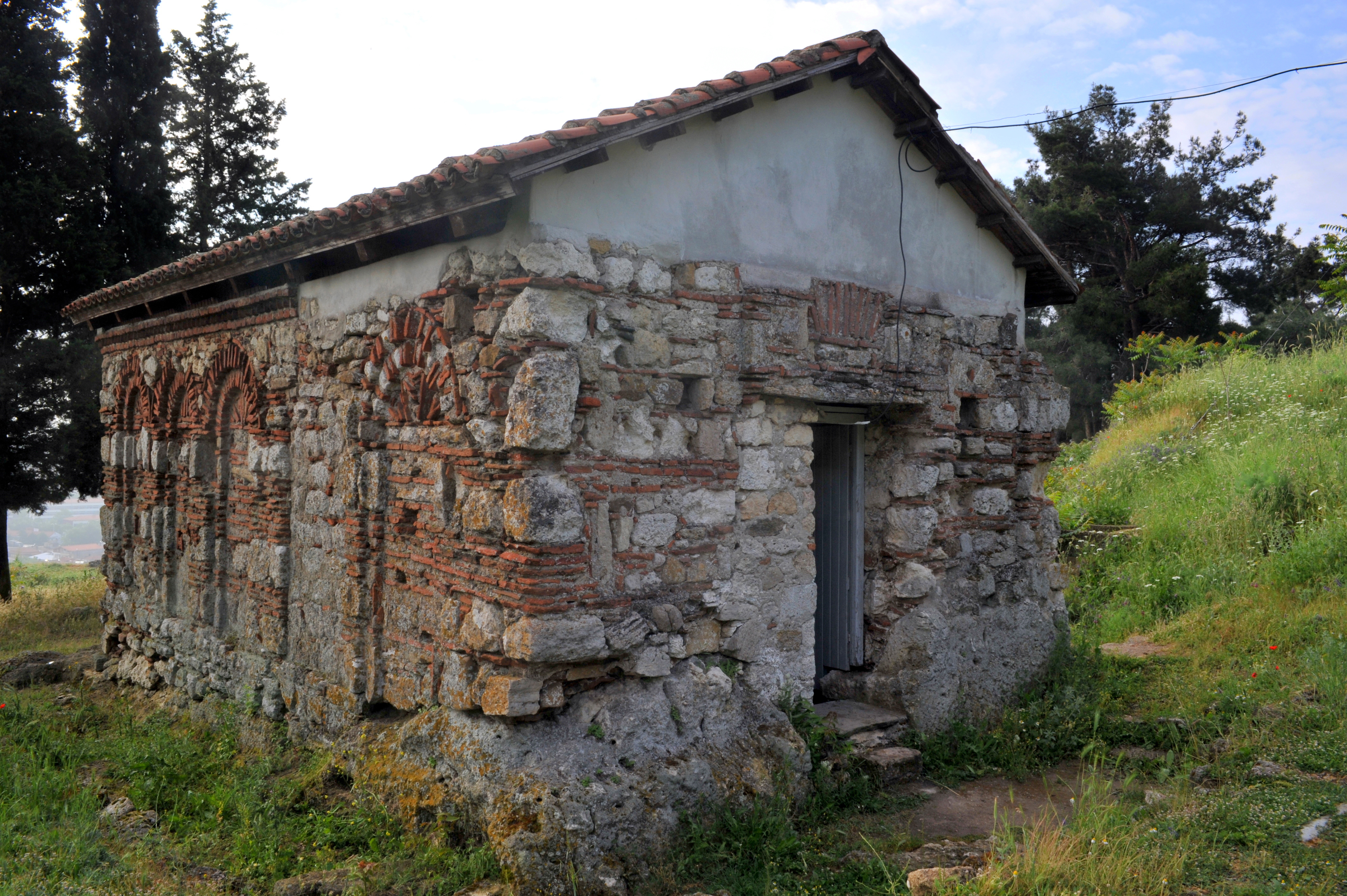 Exterior of church Saint Ekaterini at Castles - Didymoteicho, West Thrace, Greece.